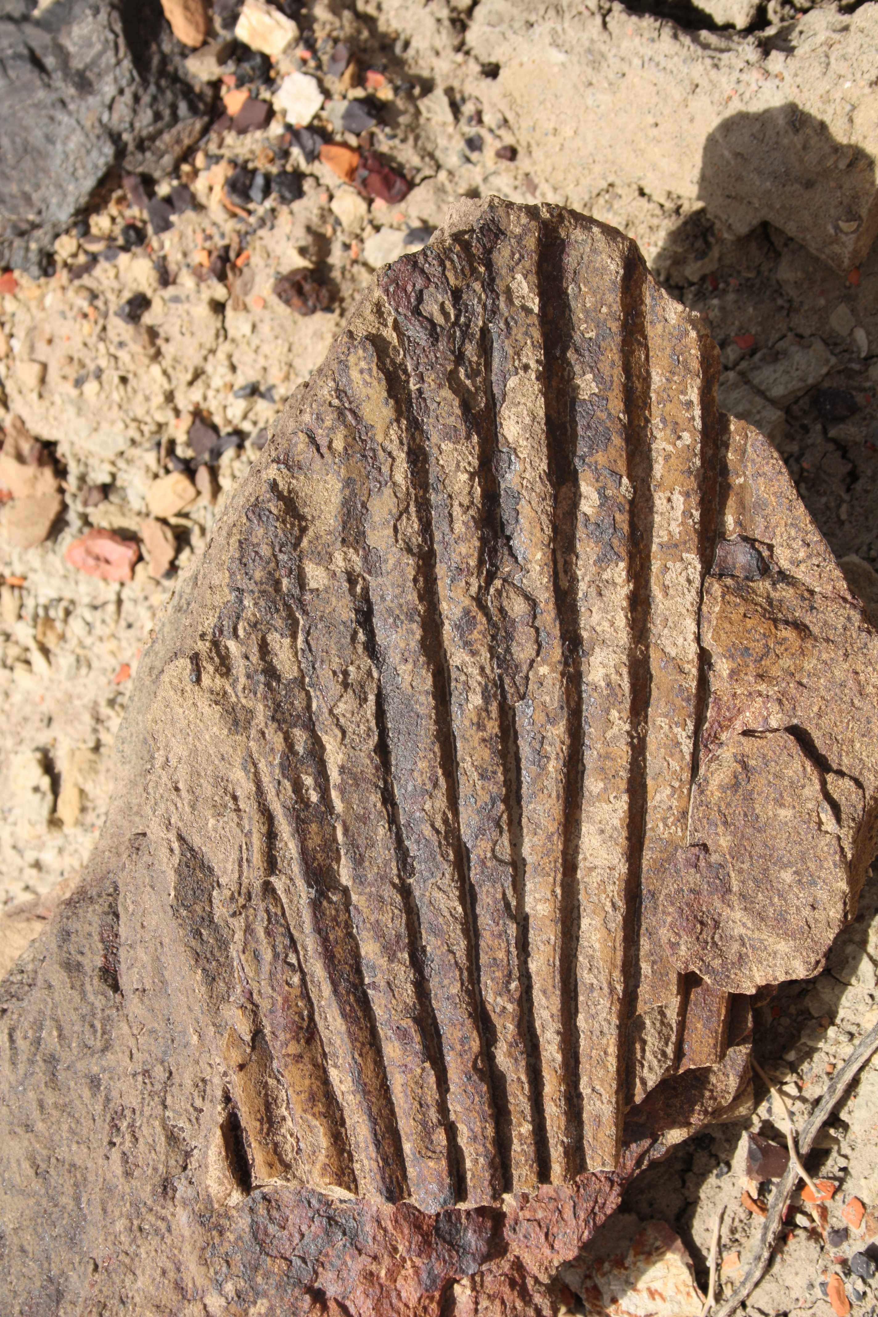 Fossilized leaf of the palm Sabalites, from the Late Cretaceous (late Campanian) aged Fruitland Formation of New Mexico, found near Coal Creek